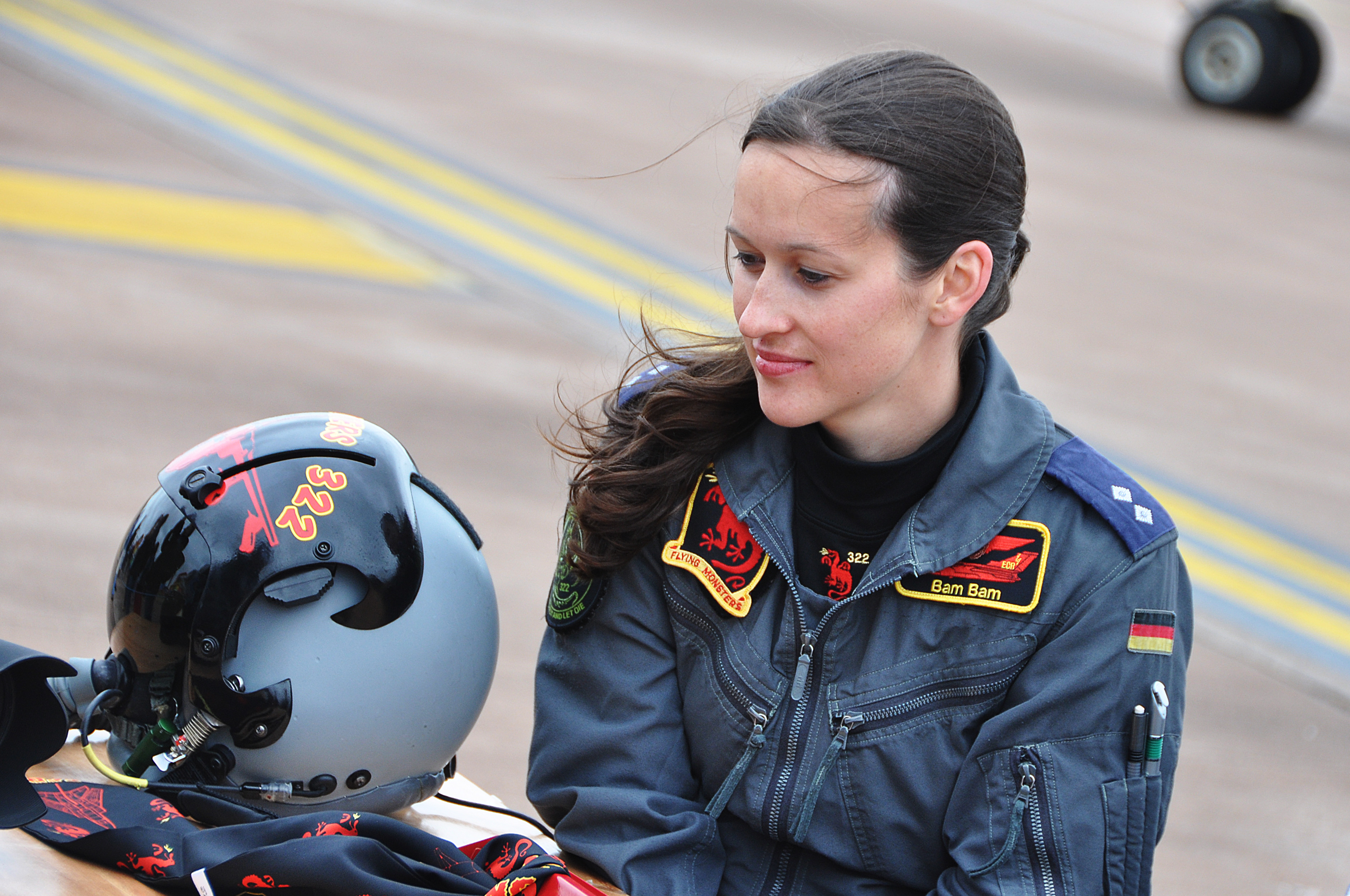 1Lt. Nicola Baumann, an instructor pilot with the 459th Flying Training Squadron, prepares for a PA-200 ECR Tornado flight in Germany in this undated photo. Baumann became just the second female fighter pilot in the history of the German Air Force back in 2007 after completing the Euro-Nato Joint Jet Pilot Training program at Sheppard Air Force Base, Texas.